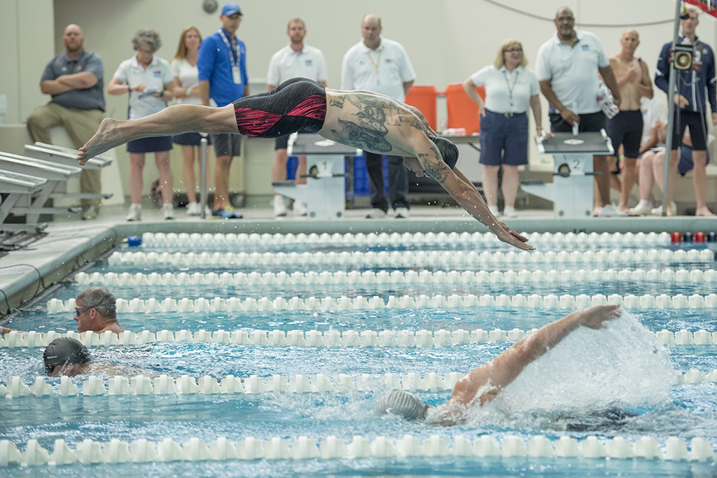 Athletes compete in swimming during the 2017 Department of Defense (DoD) Warrior Games at University of Illinois at Chicago July 8, 2017. The DoD Warrior Games are an annual event allowing wounded, ill and injured service members and veterans to compete in Paralympic-style sports including archery, cycling, field, shooting, sitting volleyball, swimming, track and wheelchair basketball. (DoD photo by Roger L. Wollenberg)